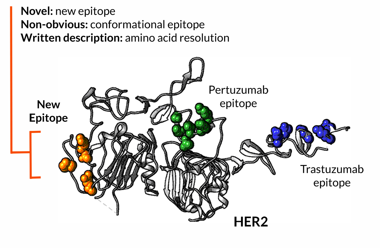 High-resolution epitope maps of two therapeutic antibodies against the HER2 protein (green and blue spheres), as well as a previously unidentified epitope against a new antibody (orange spheres). Epitopes were determined using shotgun mutagenesis epitope mapping. Epitope maps provide data that support intellectual property, including patent requirements to demonstrate novelty, non-obviousness, and a detailed written description.